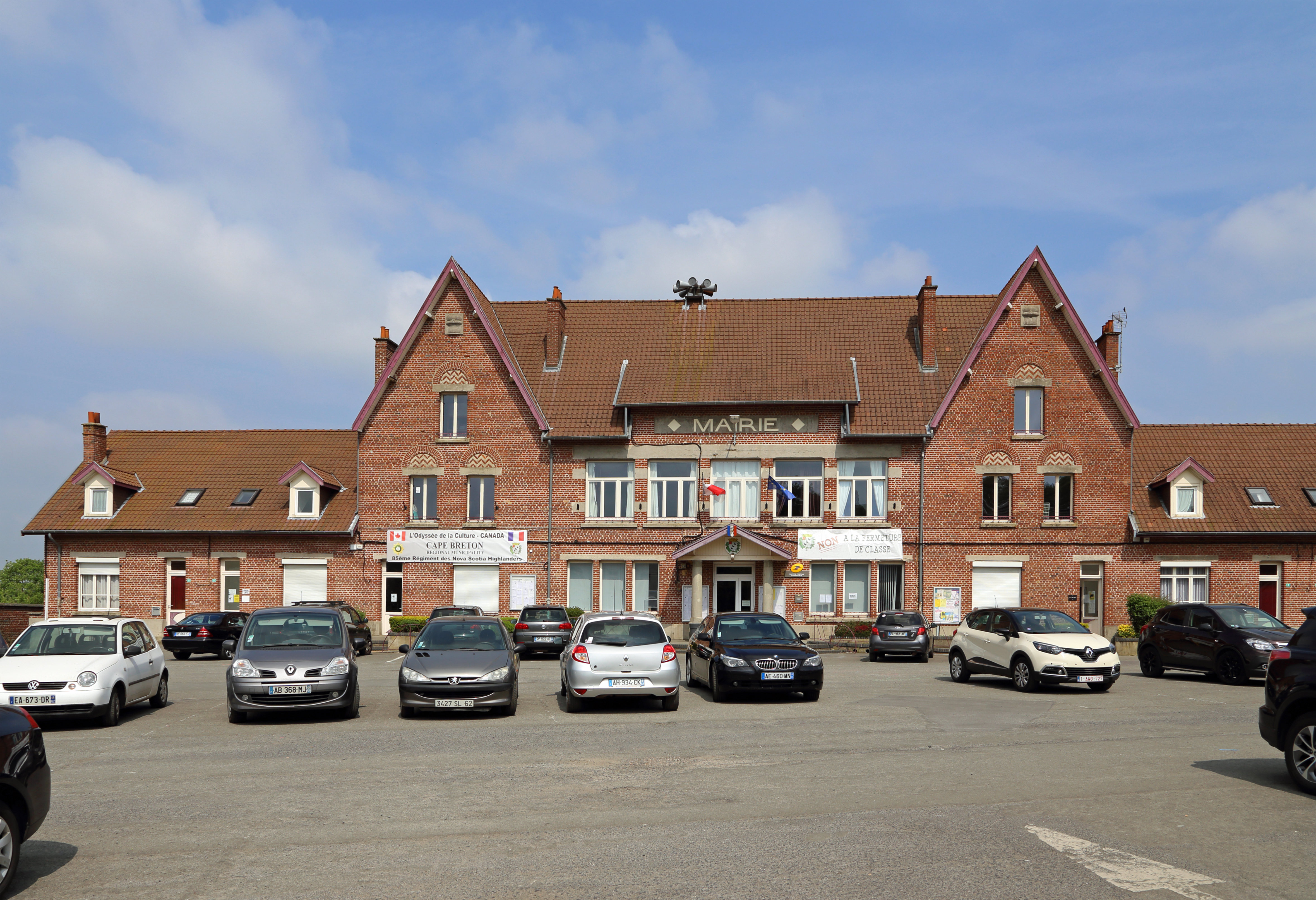 Givenchy-en-Gohelle (Pas-de-Calais department, France): town hall